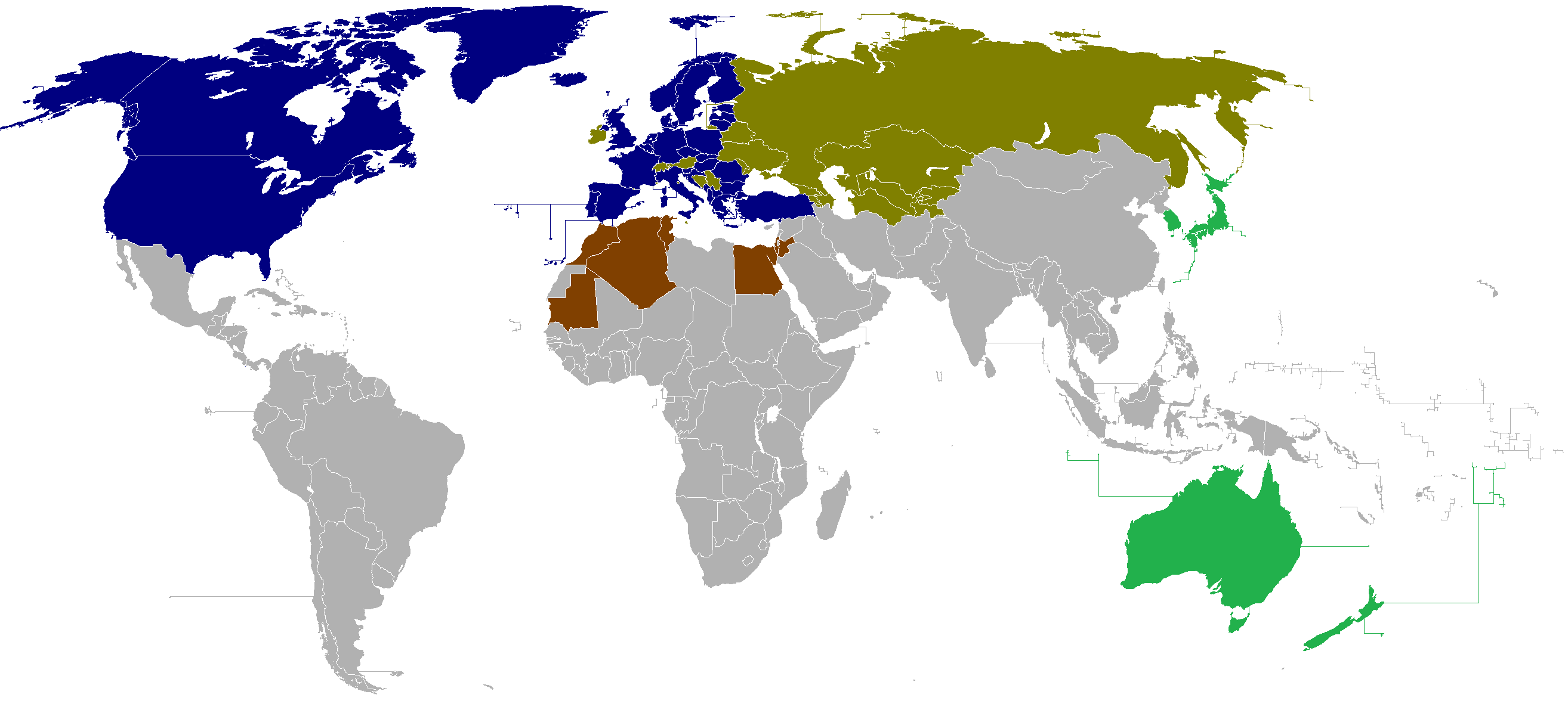 NATO (in dark blue), Membership Action Plan (in blue), the Partnership for Peace countries (in green), the Mediterranean dialogue countries (in brown). Created by User:Aris Katsaris, modifying Image:BlankMap-World-v2.png. Aris Katsaris 22:54, 2 March 2006 (UTC) Added Contract Countries (Australia, Japan, New Zealand, South Korea) in green. -- とある白い猫 ちぃ？ 03:13, 11 August 2011 (UTC)